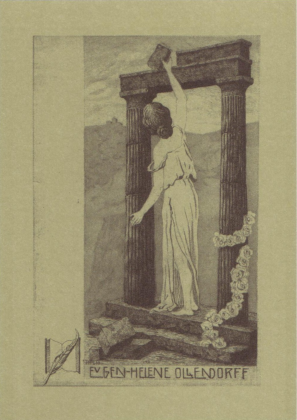 Exlibris of Eugen and Helene Ollendorff (Breslau/Wroclaw, Silesia)